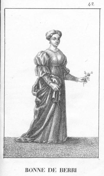 Bonne of Berry